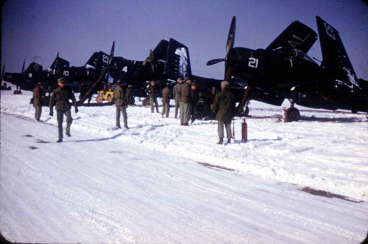 Douglas AD-4 Skyraider attack planes of U.S. Marine Corps attack squadron VMA-251 Thunderbolts at Pyongtaek airfield (K-6), South Korea, in 1953/54.